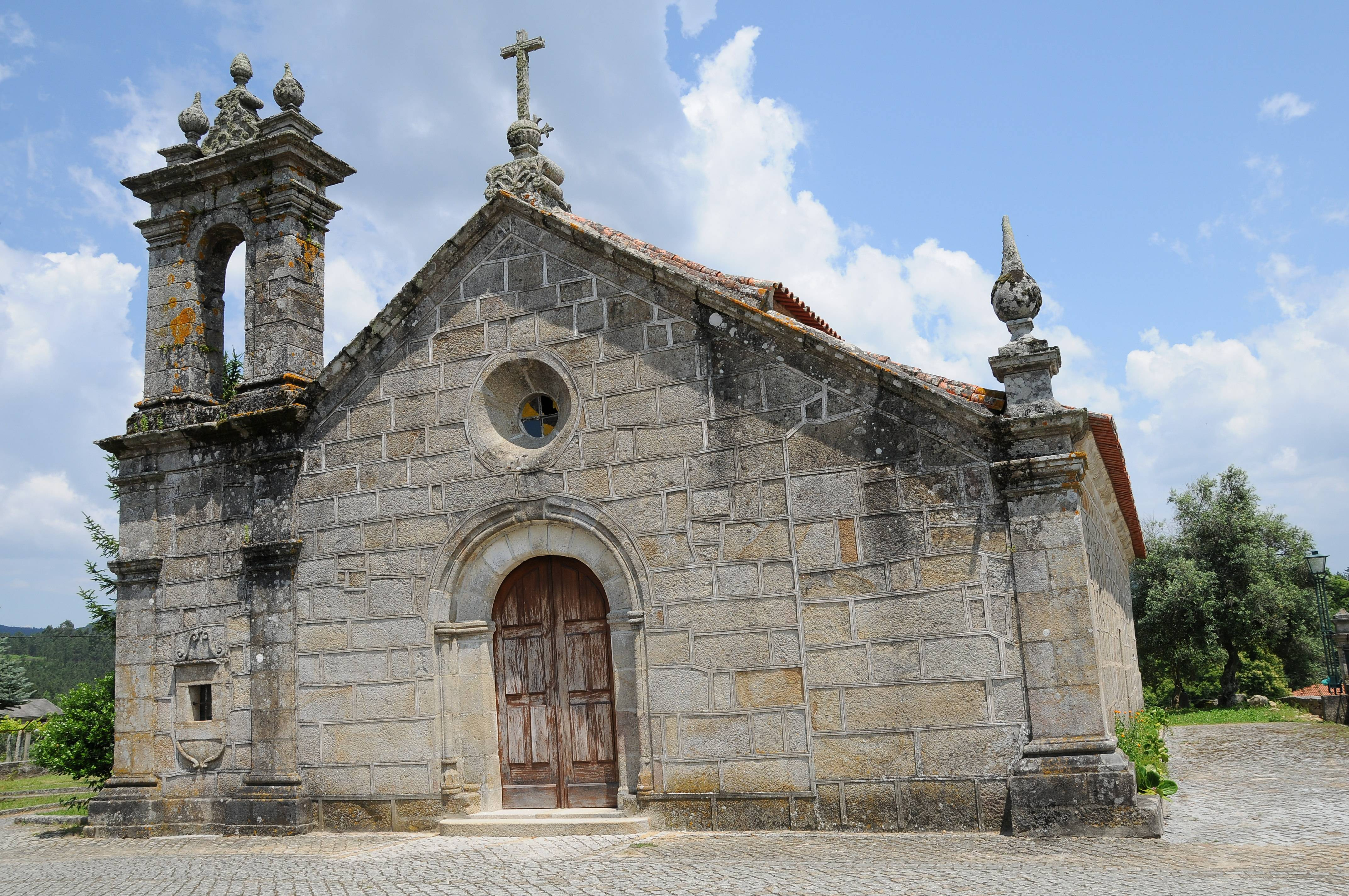 Estorãos Church, in Estorãos, Ponte de Lima, Portugal